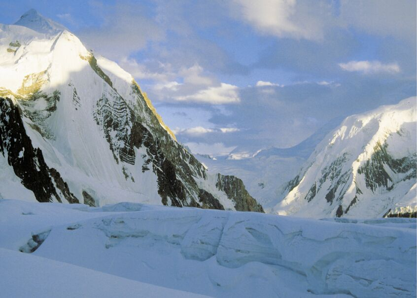 Inside Gasherbrum valley, looking south (SSE): South Gasherbrum glacier with Hidden Sud (aka Gasherbrum 0), subsidiary peak south of Gasherbrum I, on the left and Baltoro Kangri on the right.